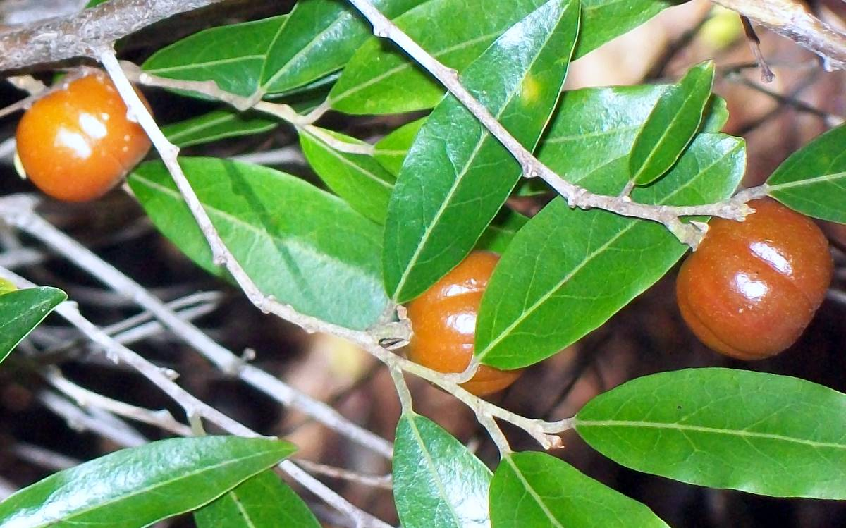 Petalostigma triloculare fruit, Coffs Harbour Botanic Gardens